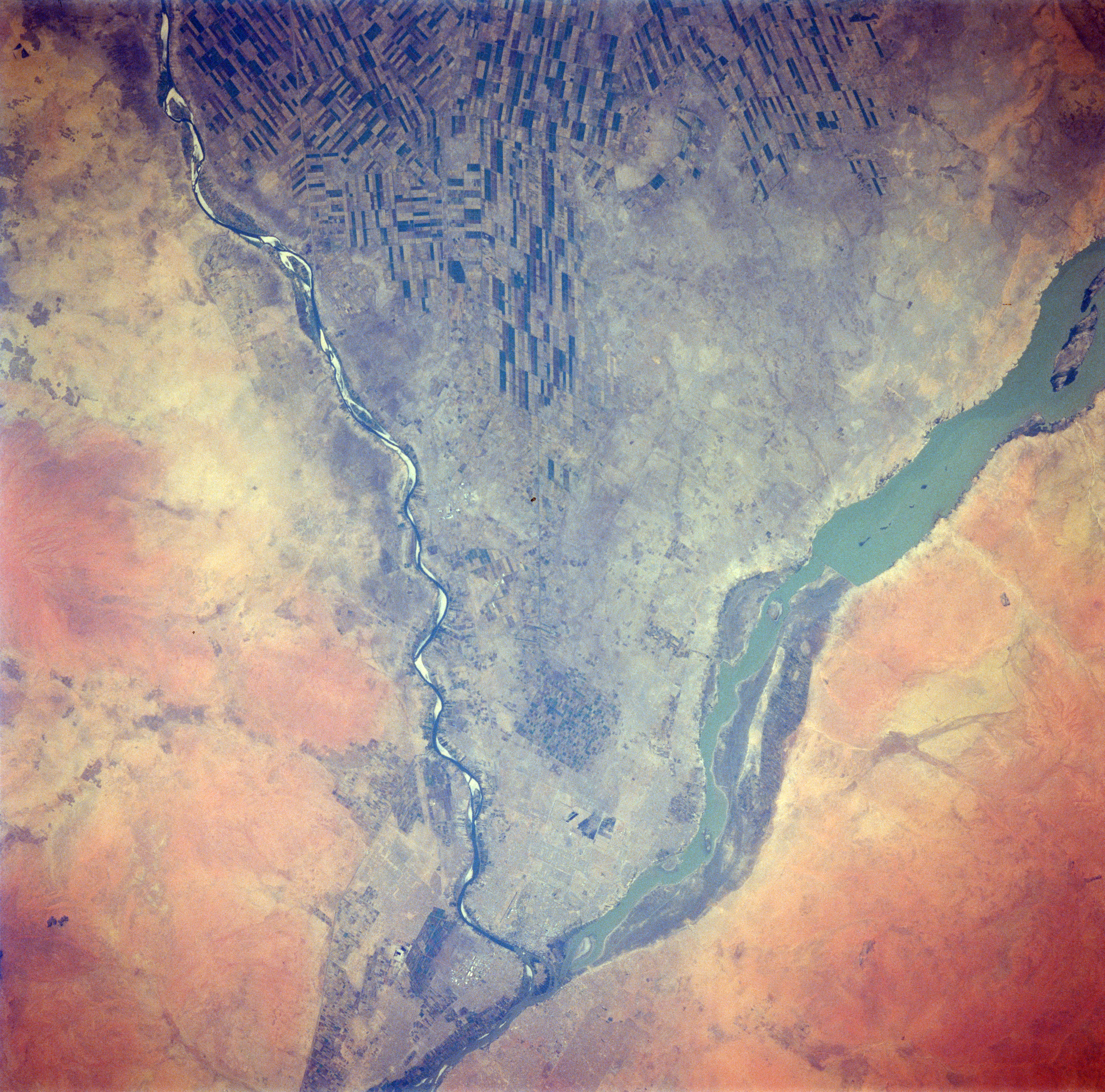 This vertical view shows the smaller Blue Nile merging with the White Nile. Khartoum, the capital city of Sudan, lies at the confluence (on both sides of the Nile). Water from the two rivers allow vast areas in between to be irrigated. The checker-board pattern along the top of the frame is just a small part of the El Gezira cotton-growing project, one of the largest in the world.